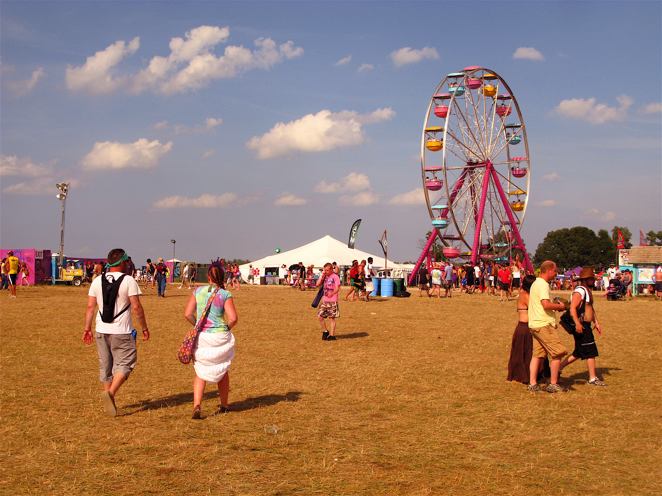 Bonnaroo Music and Arts Festival 2010 Manchester, TN By JASON ANFINSEN